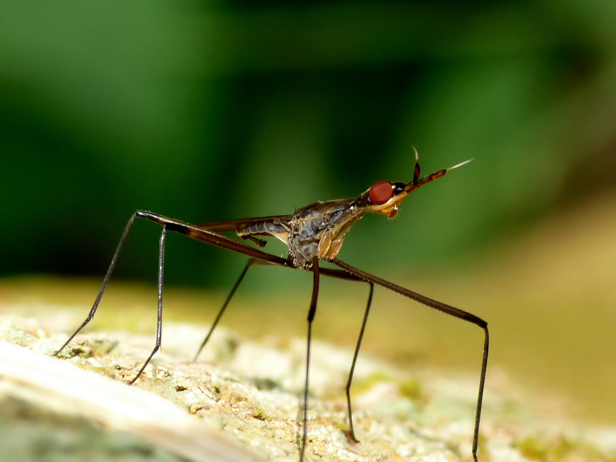 Neriidae is a family of true flies (Diptera) closely related to the Micropezidae. Some species are known as cactus flies while others have been called banana stalk flies and the family was earlier treated as subfamily of the Micropezidae which are often called stilt-legged flies. Like the Micropezidae, they have long legs and are found in damp or rotting vegetation where. They however differ in having no significant reduction of the forelegs as seen in the Micropezidae. There are about 100 species in 20 genera. Taken at Kadavoor, Kerala, India